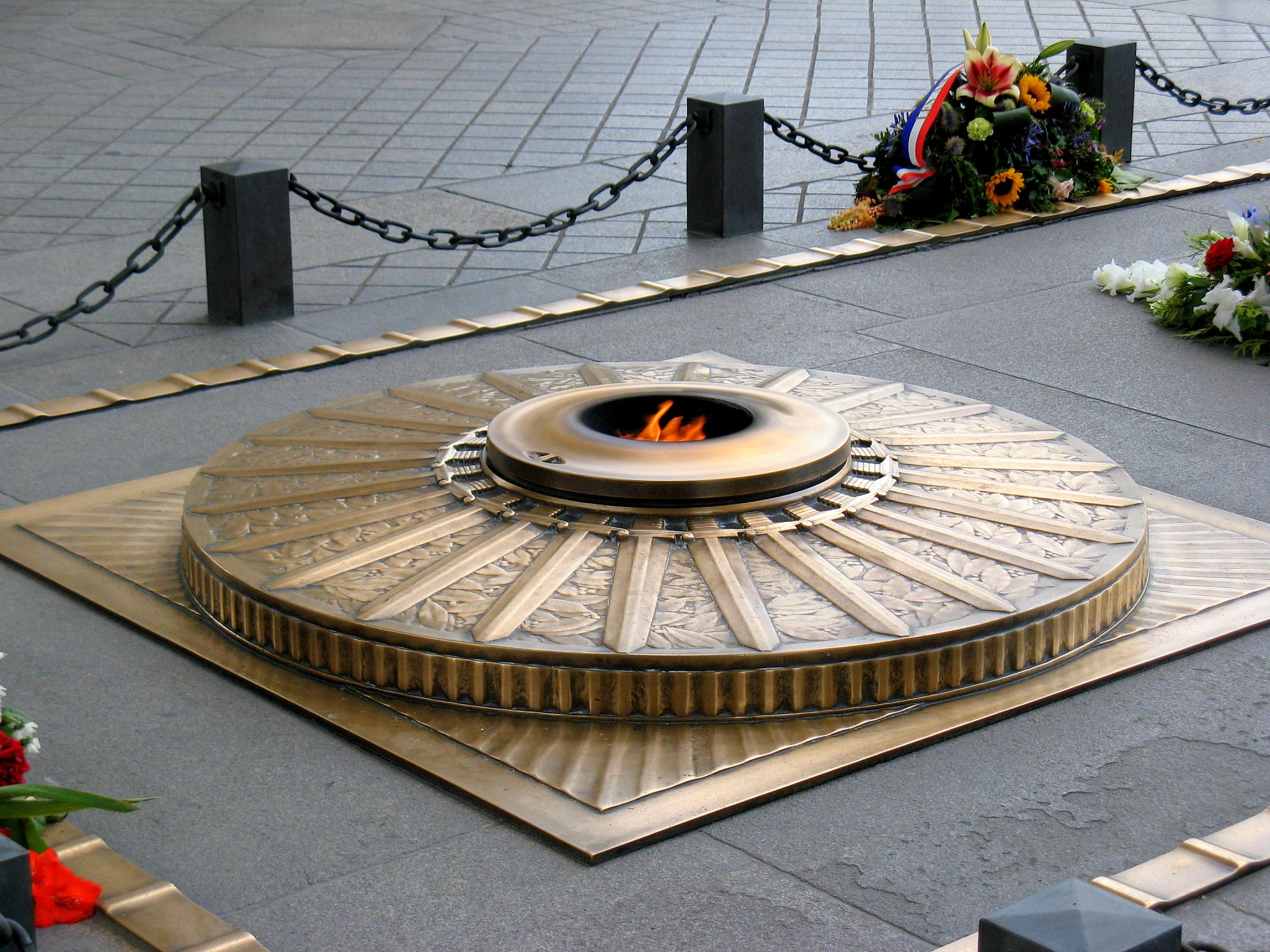 A view of the Arc de Triomphe.